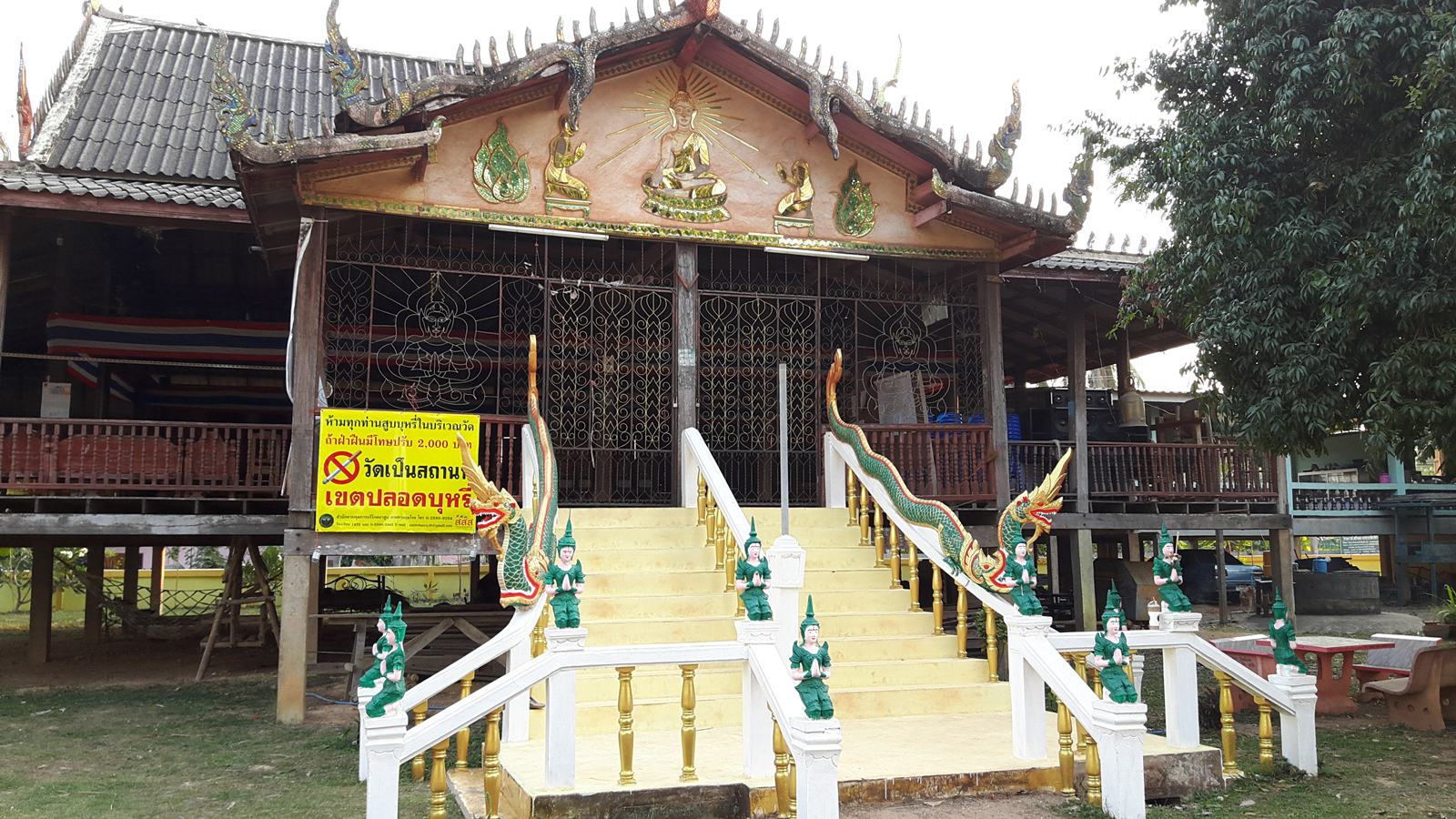 Ban Wang Din